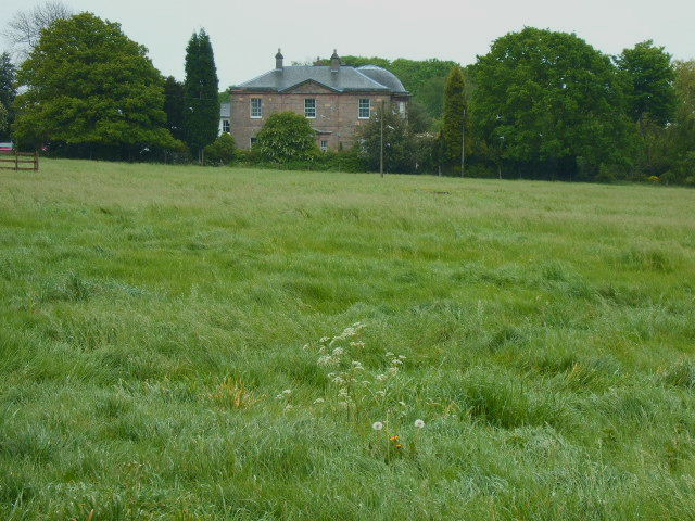 Amington Hall The country estate house at Amington.